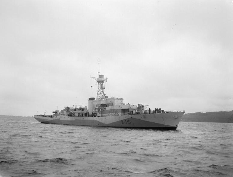 British corvette HMS Hurst Castle (K416) Underway in the Firth of Tay on completion.